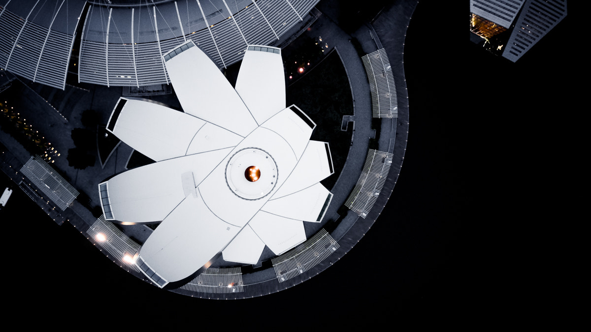 500px provided description: DCIM\101MEDIA\DJI_0190.JPG [#sky ,#city ,#sunset ,#river ,#travel ,#tourism ,#urban ,#architecture ,#roof ,#cityscape ,#road ,#traffic ,#building ,#beautiful ,#aerial ,#evening ,#singapore ,#sight ,#town ,#panorama ,#skyline ,#skyscraper ,#modern ,#panoramic ,#outdoors ,#waterfront ,#horizontal ,#business ,#no person]